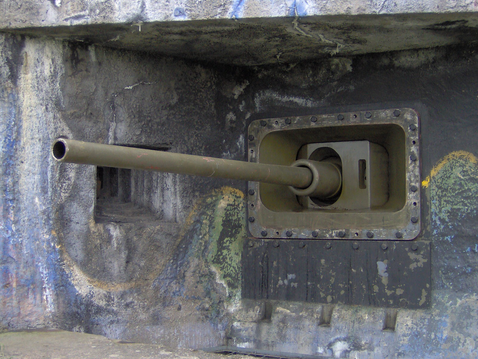 MJ-S 3 Zahrada infantry casemate, Znojmo District, Czech Republic